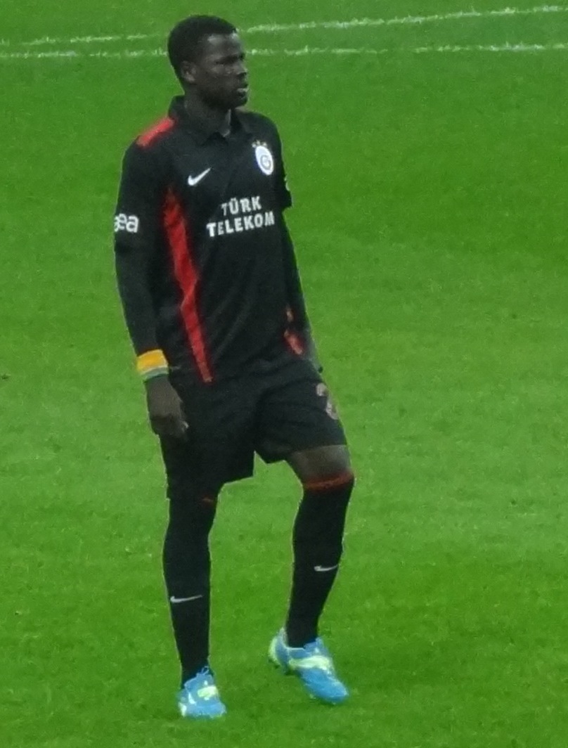 Eboue